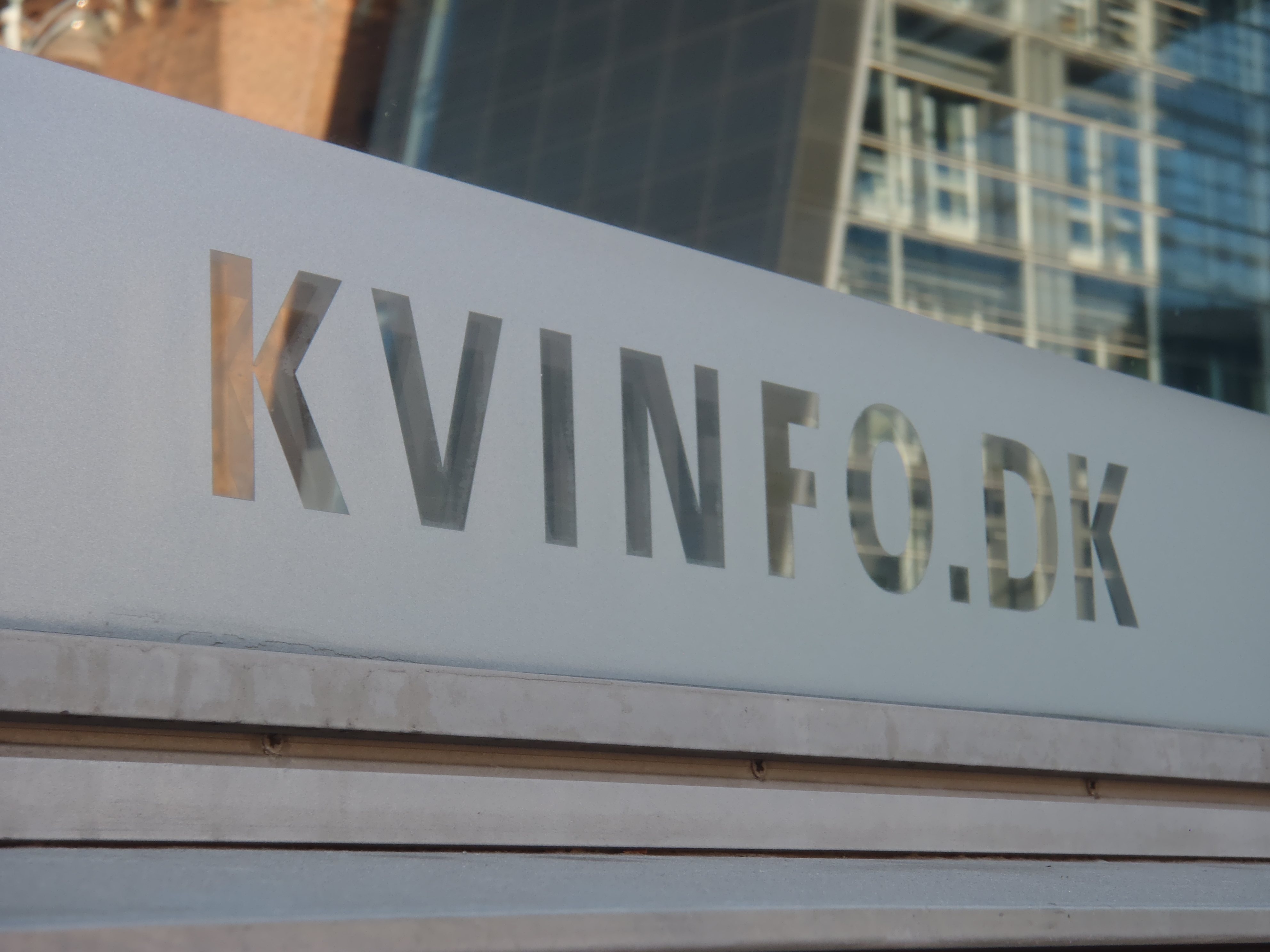 Photo at the entrance for KVINFO in Copenhagen, Denmark.